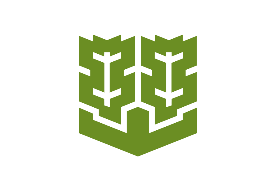 Flag of Matsuyama, Ehime